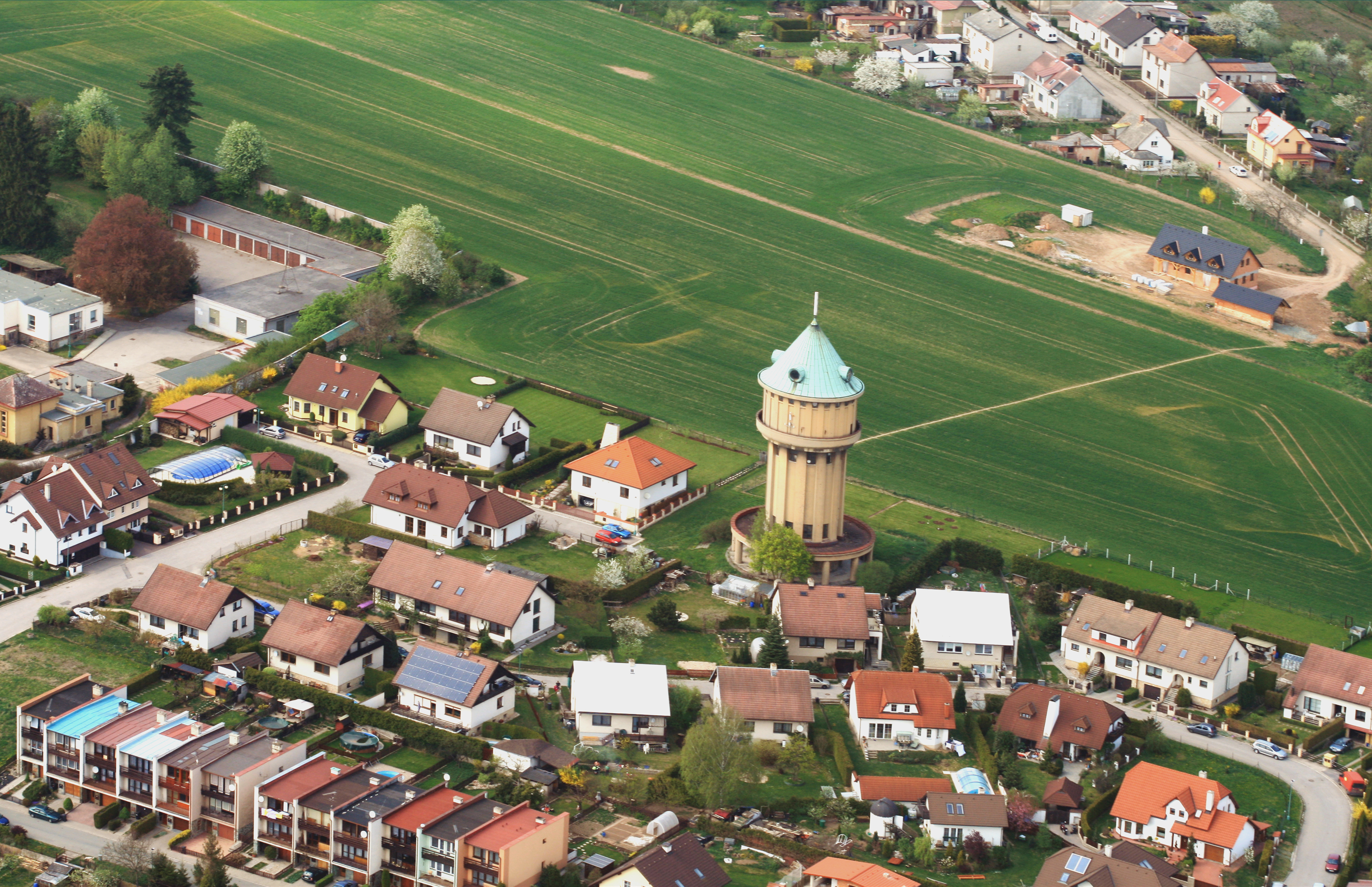 Water tower of town Jaroměř with from air, eastern Bohemia, Czech Republic